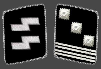 Rang insignia of the SS/Waffen-SS, here universal collar patches to the CO-rank “SS-Hauptsturmfuehrer” until 1945.